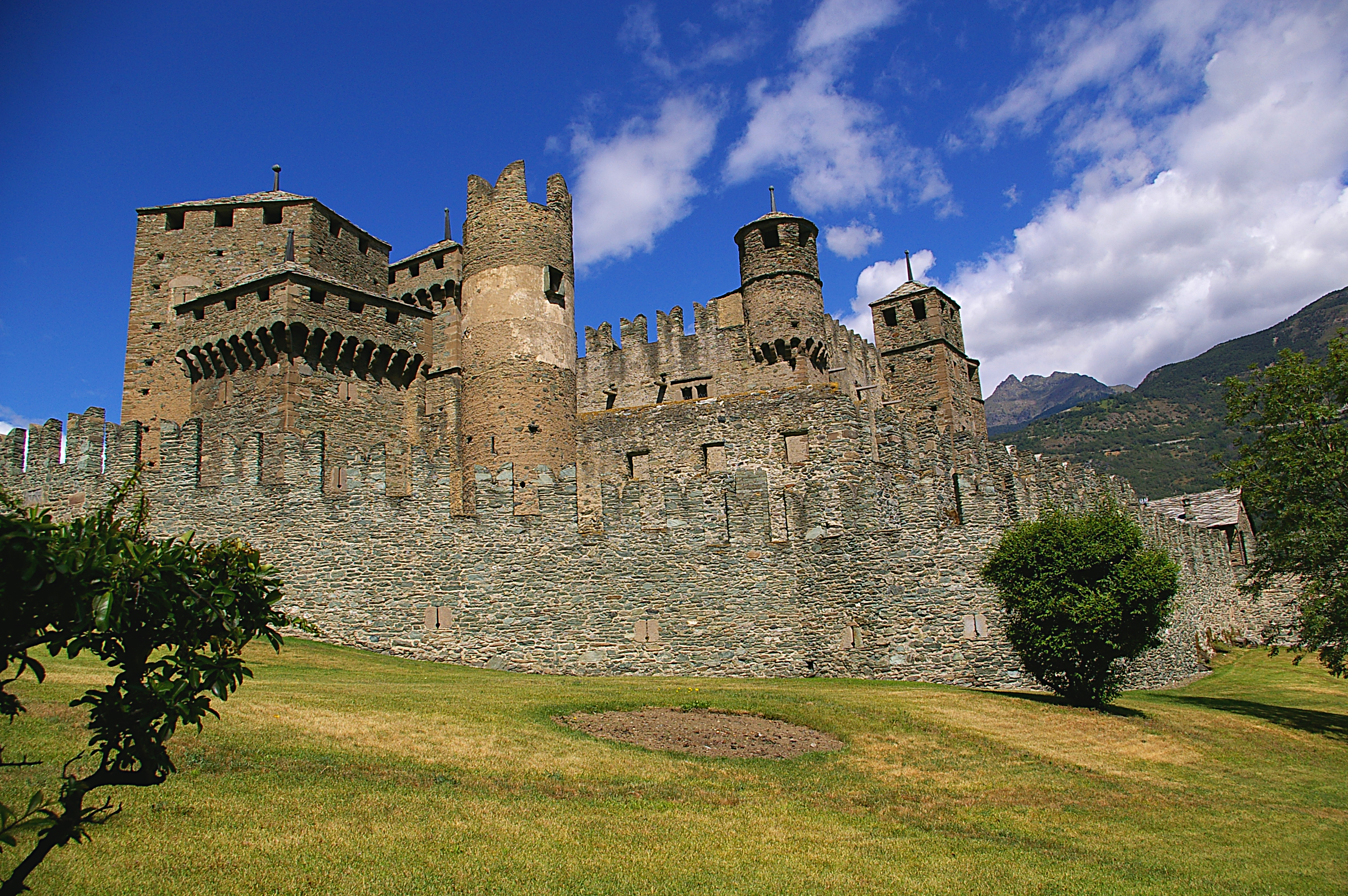 This is a photo of a monument which is part of cultural heritage of Italy.